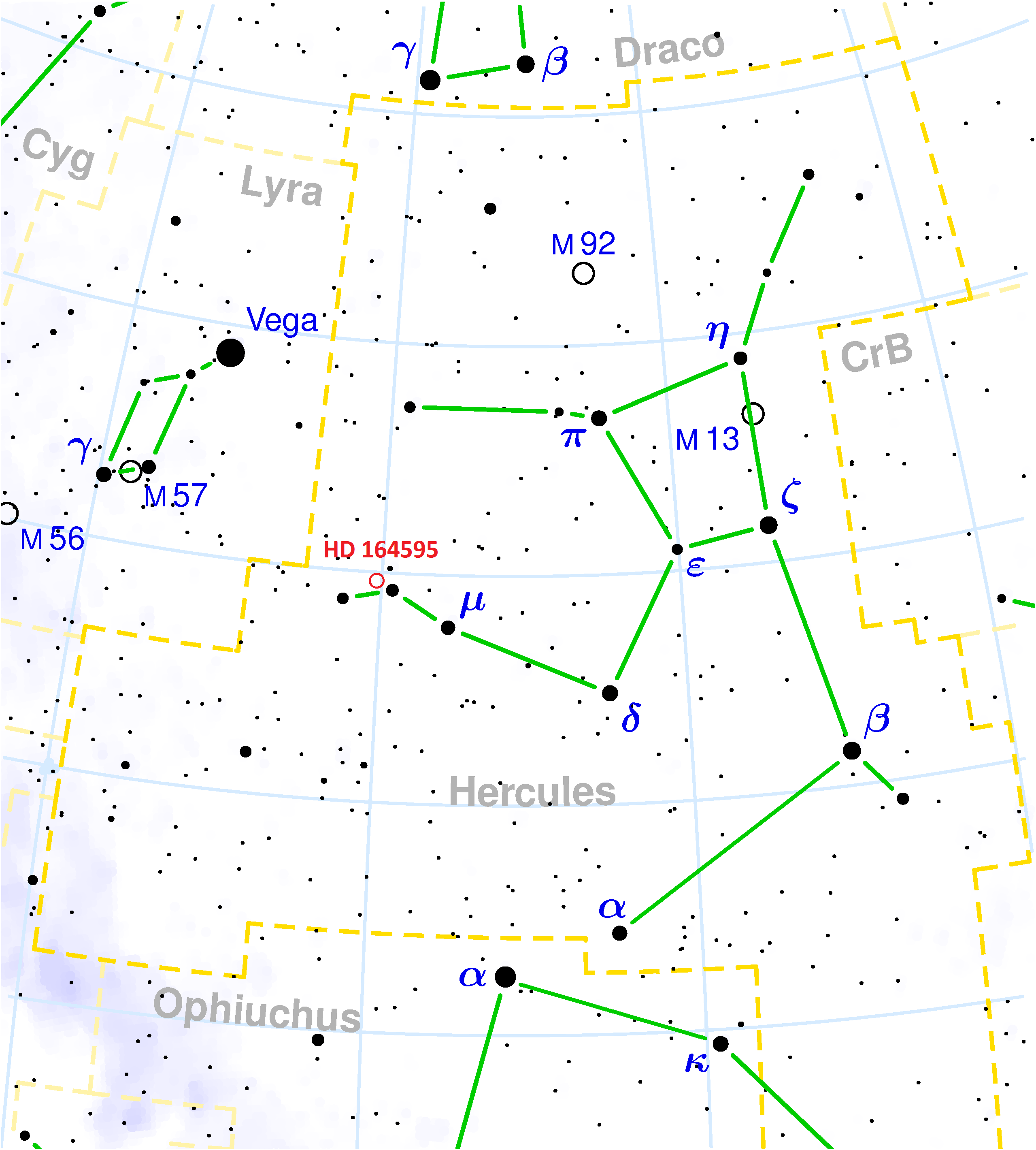 Approximate position of star HD 164595 in the Hercules constellation.